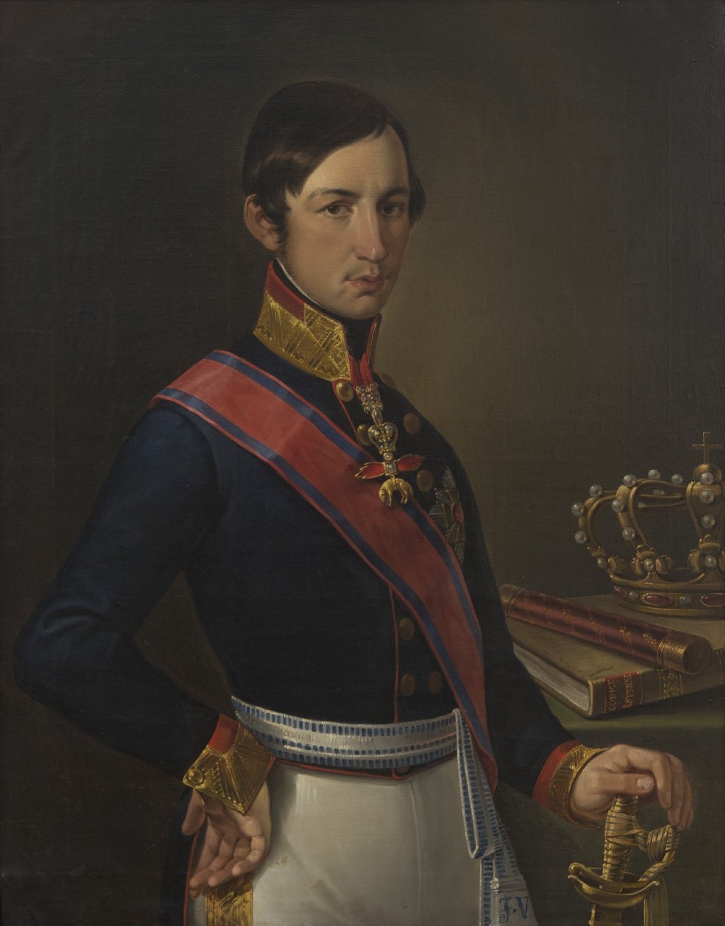 Archduke Franz Ferdinand Geminianus of Austria-Este (1819–1875), from 1846 Duke Franz V of Modena, Reggio, Garfagnana, Massa and Carrara.